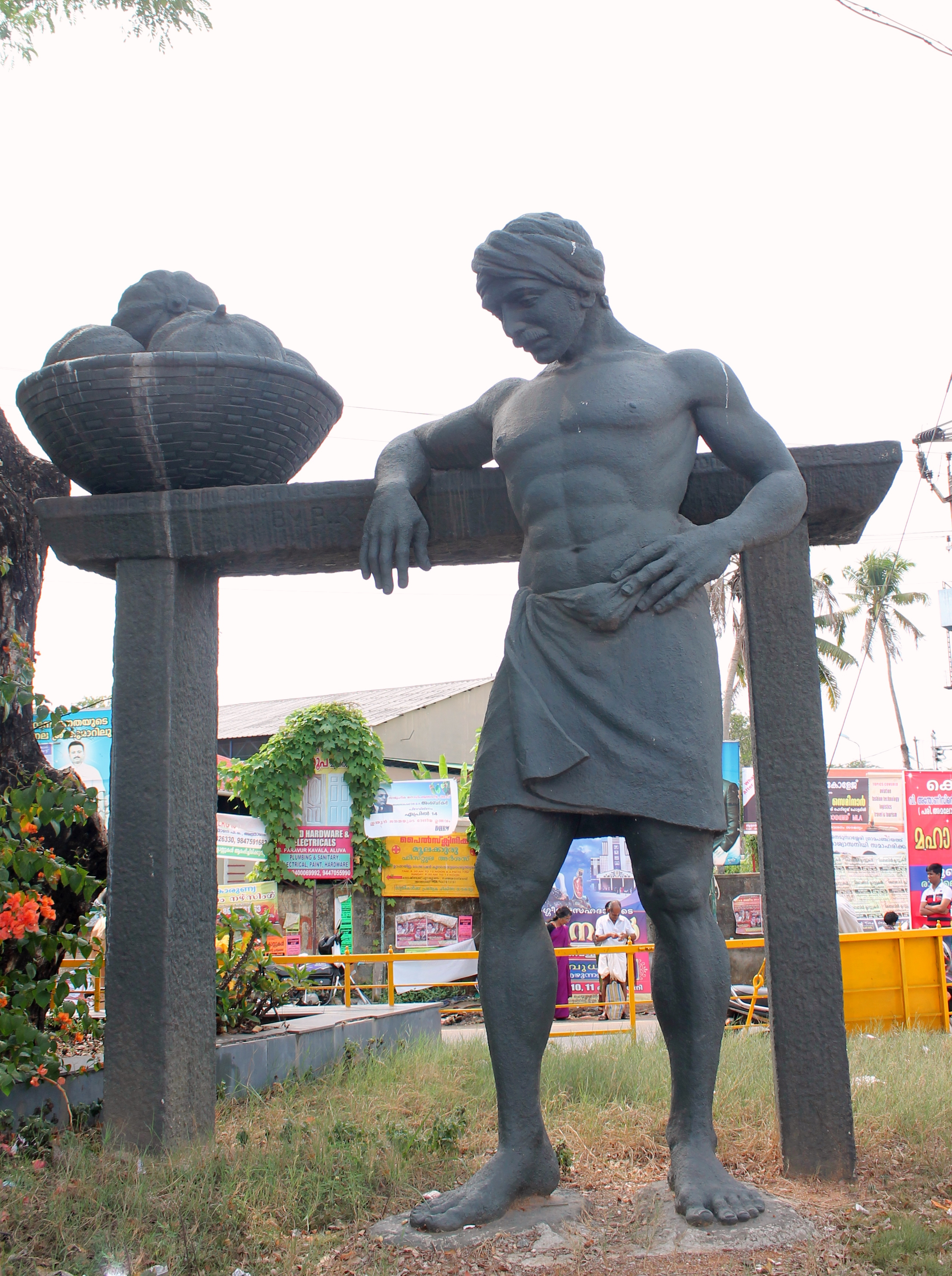 The statue of a labourer resting after placing the load on an "Athani". The statue is situated at Athani Junction, near Aluva.